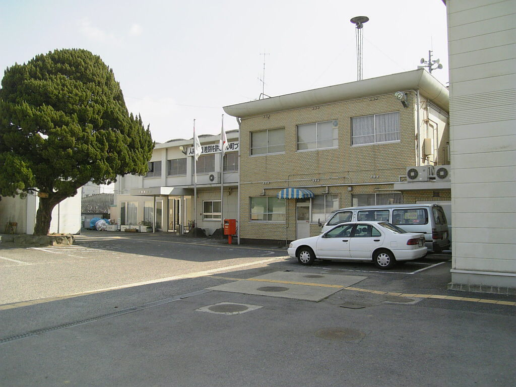 Heguri Town Office in Nara Prefecture, Japan